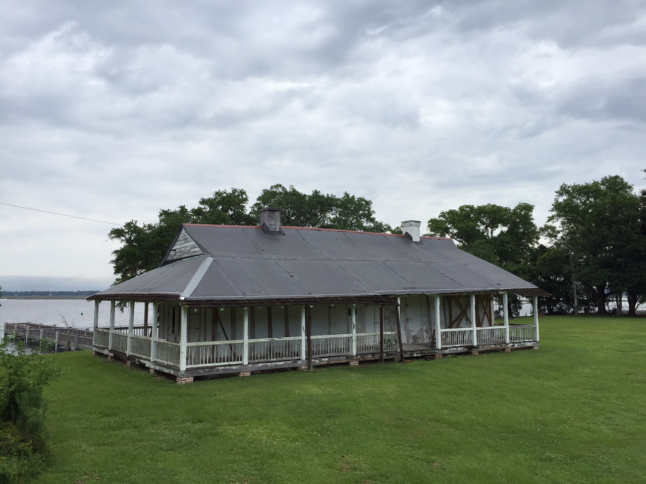 Photo of the South Side Exterior before restoration began